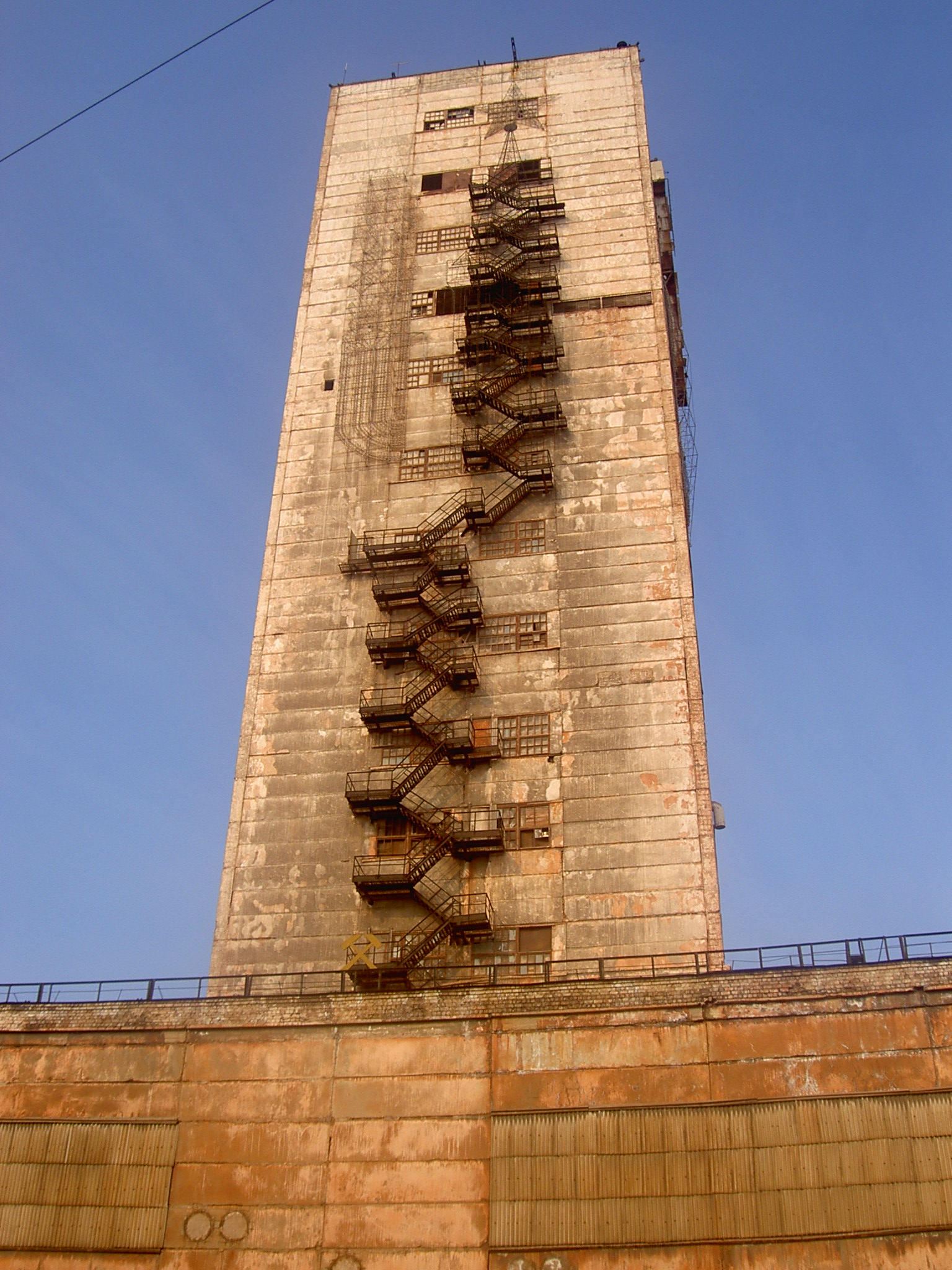 95th Headframe of Gigant-Hlyboka mine in Kryvyi Rih